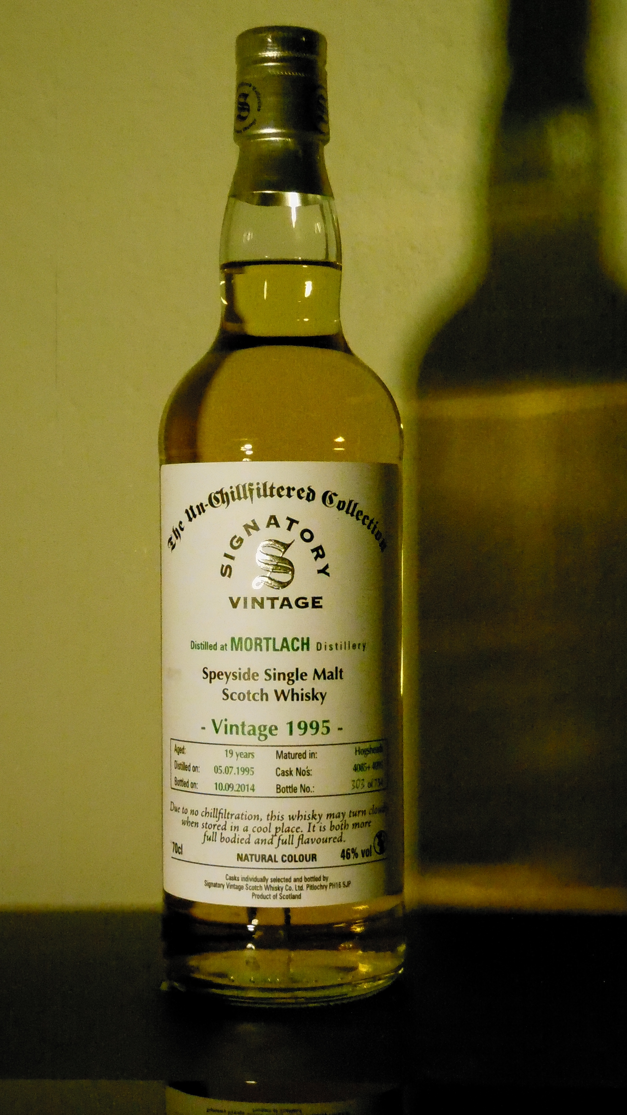 A bottle of Single Malt Whisky from the Mortlach distillery distributed by an independent bottler.